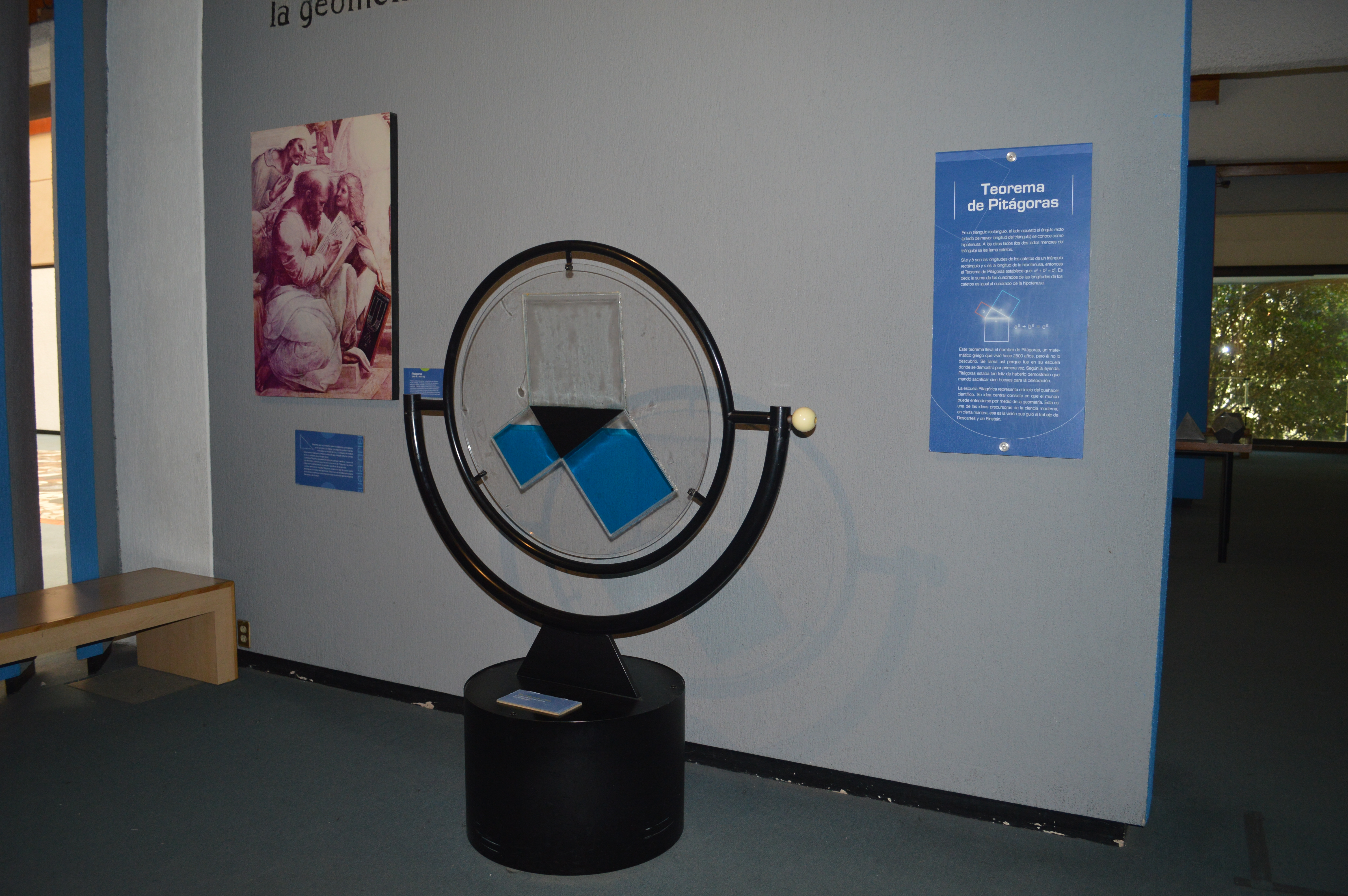 Exhibit related to Pythagoras Theorum at Universum at the Ciudad Universitaria in Mexico City